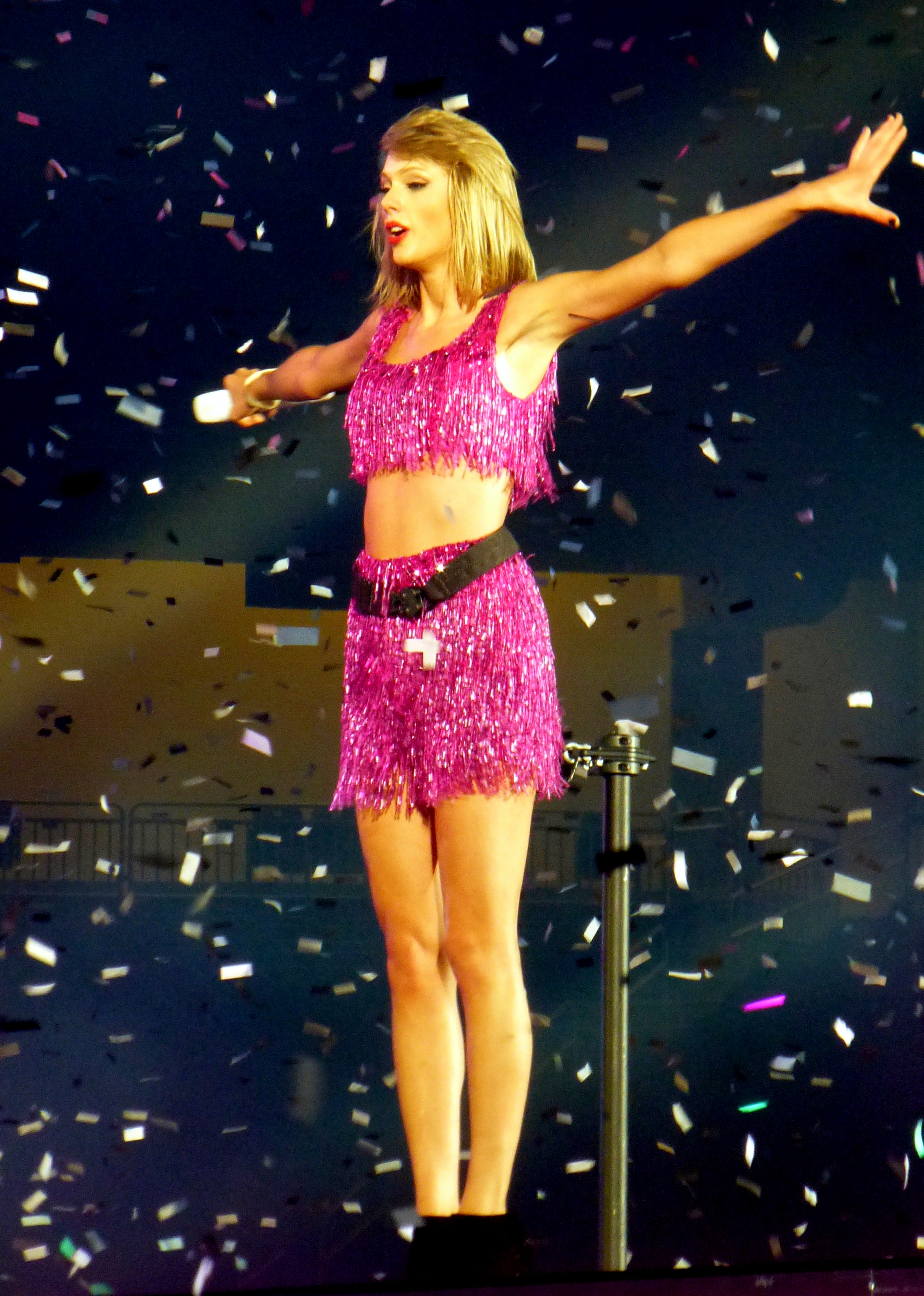 Taylor Swift 1989 Tour at Ford Field in Detroit, 5/30/15